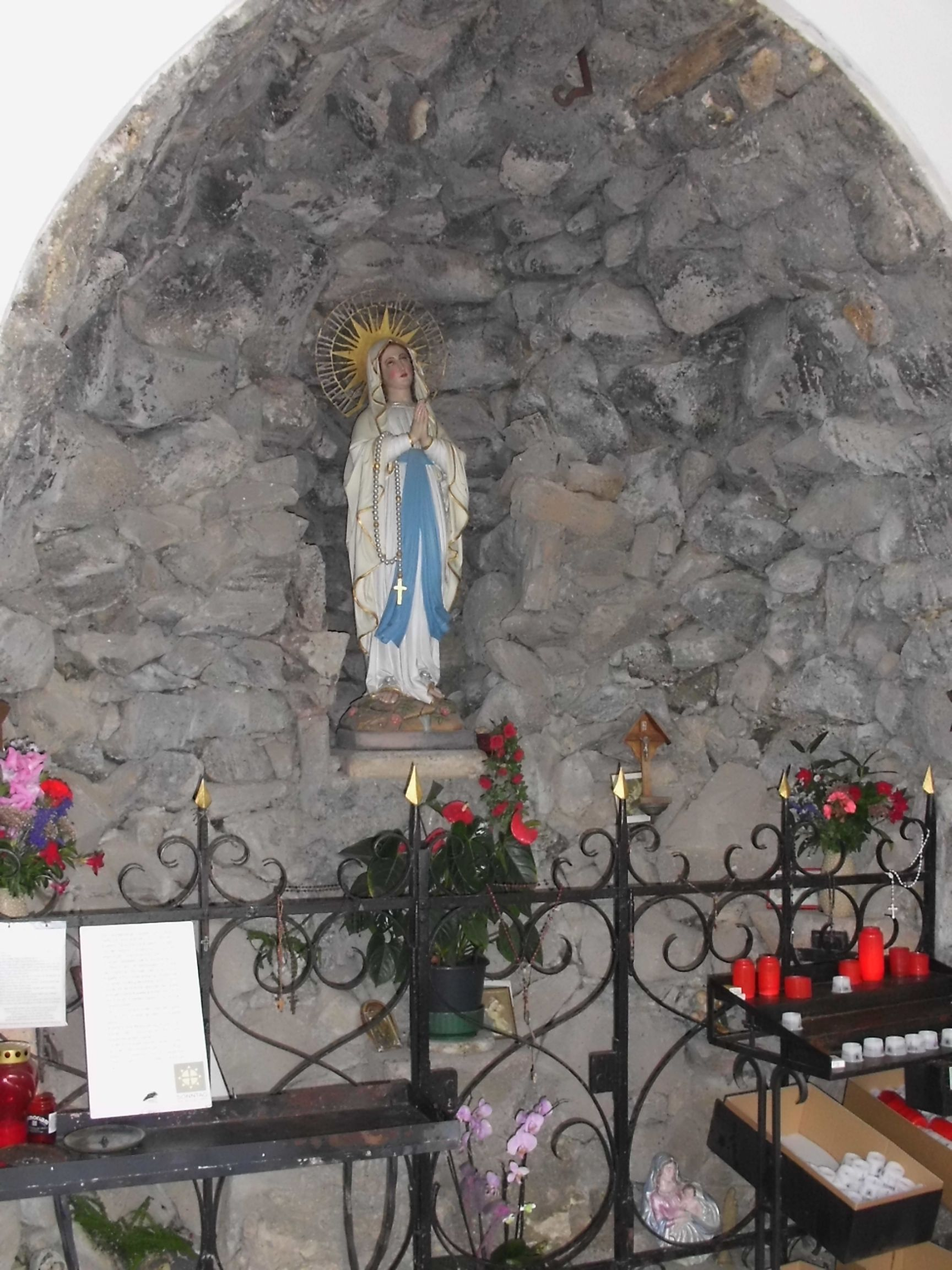 Statue of Maria Helfbrunn in the Lourdes Grotto